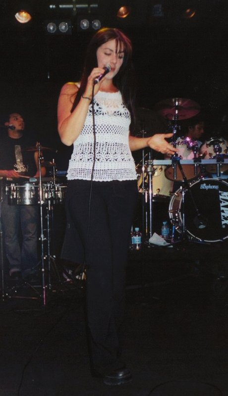 Australian singer Vanessa Amorosi performing live in 2002